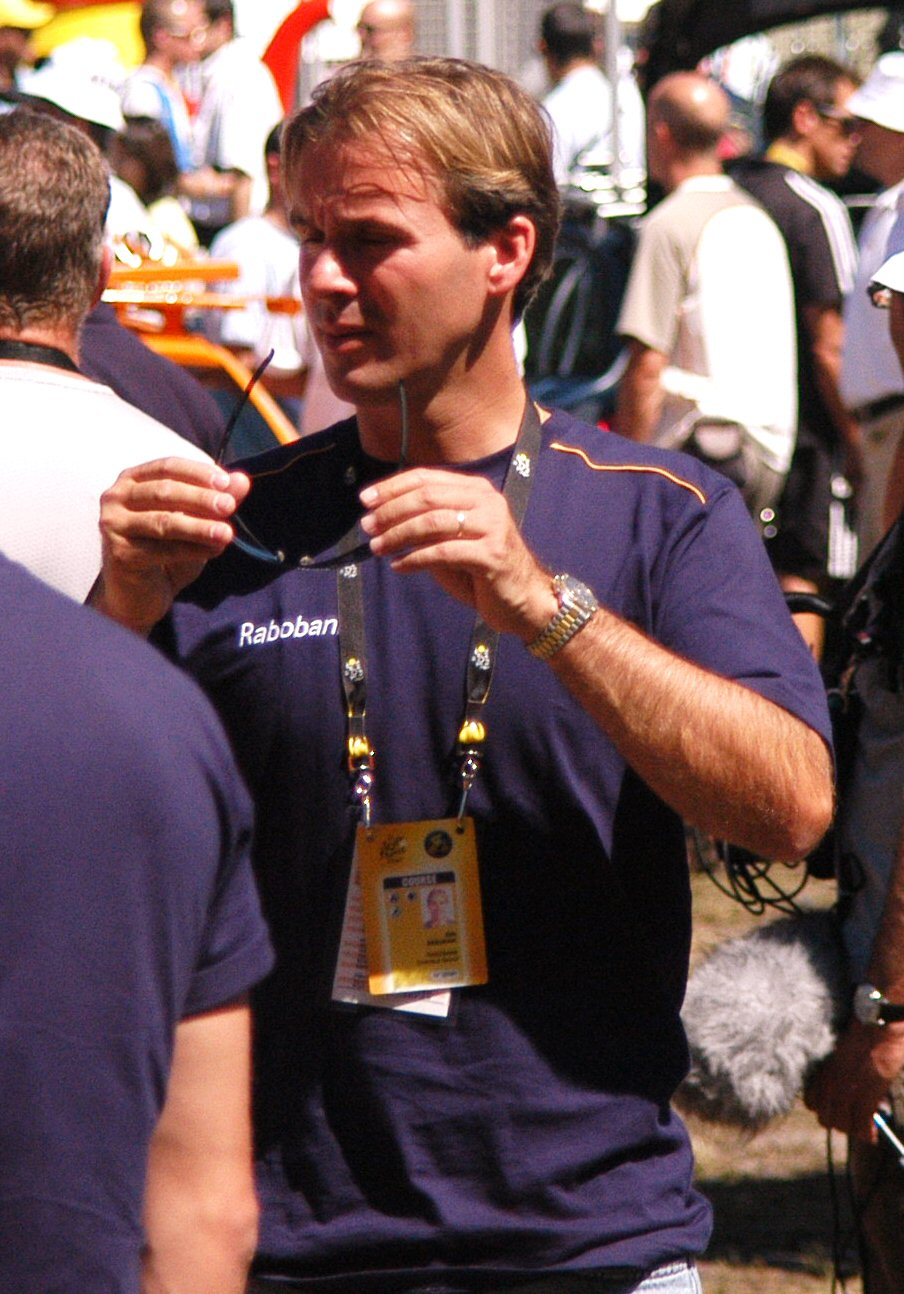 Erik Breukink at the start of stage 8 in Le Grand Bornand, Tour de France 2007.